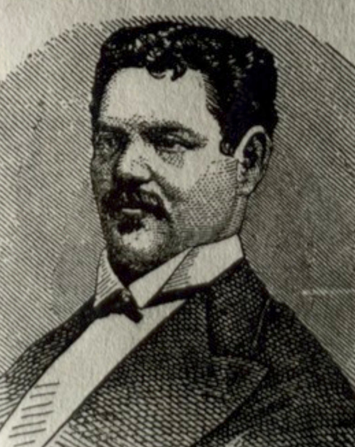 Abraham Uri Kovner